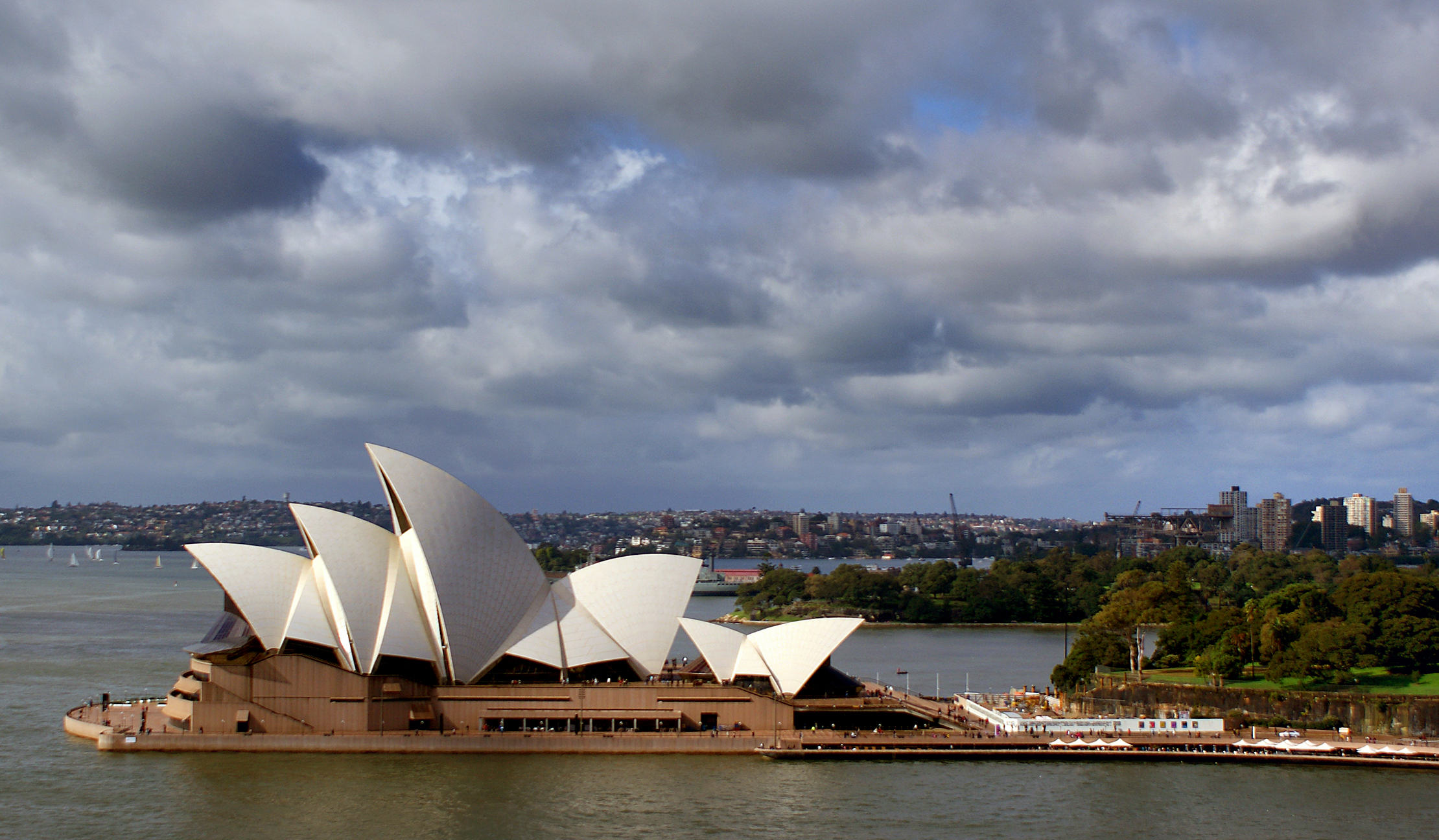 The Sydney Opera House is a multi-venue performing arts centre in Sydney, New South Wales, Australia. Address: Bennelong Point, Sydney NSW 2000, Australia Construction started: 1958 Opened: October 20, 1973 Architectural style: Expressionist architecture Architecture firm: Arup Architects: Jørn Utzon, Ove Arup